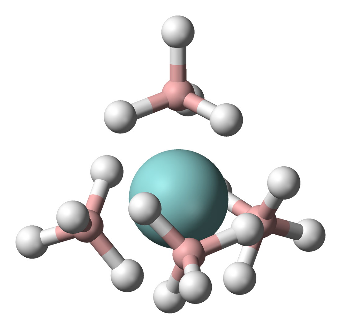 Ball-and-stick model of the zirconium borohydride molecule, Zr(BH4)4